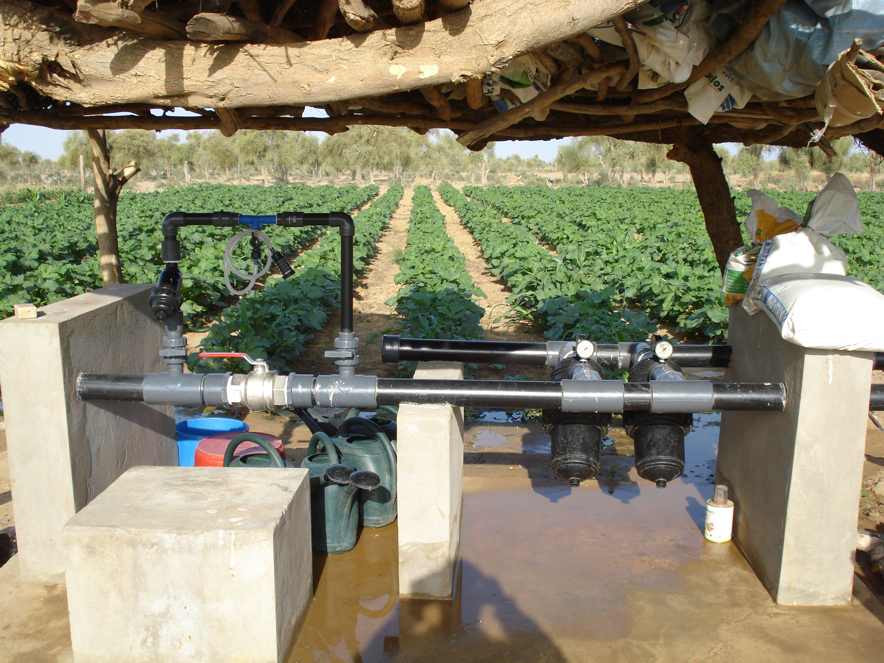 text